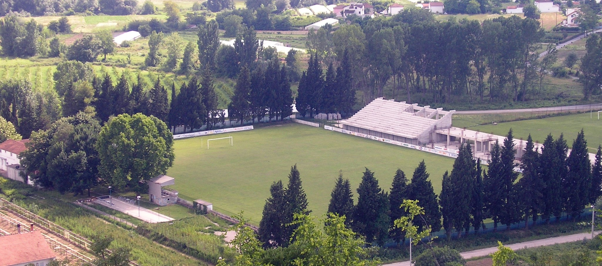 GOŠK Gabela staduim, BiH